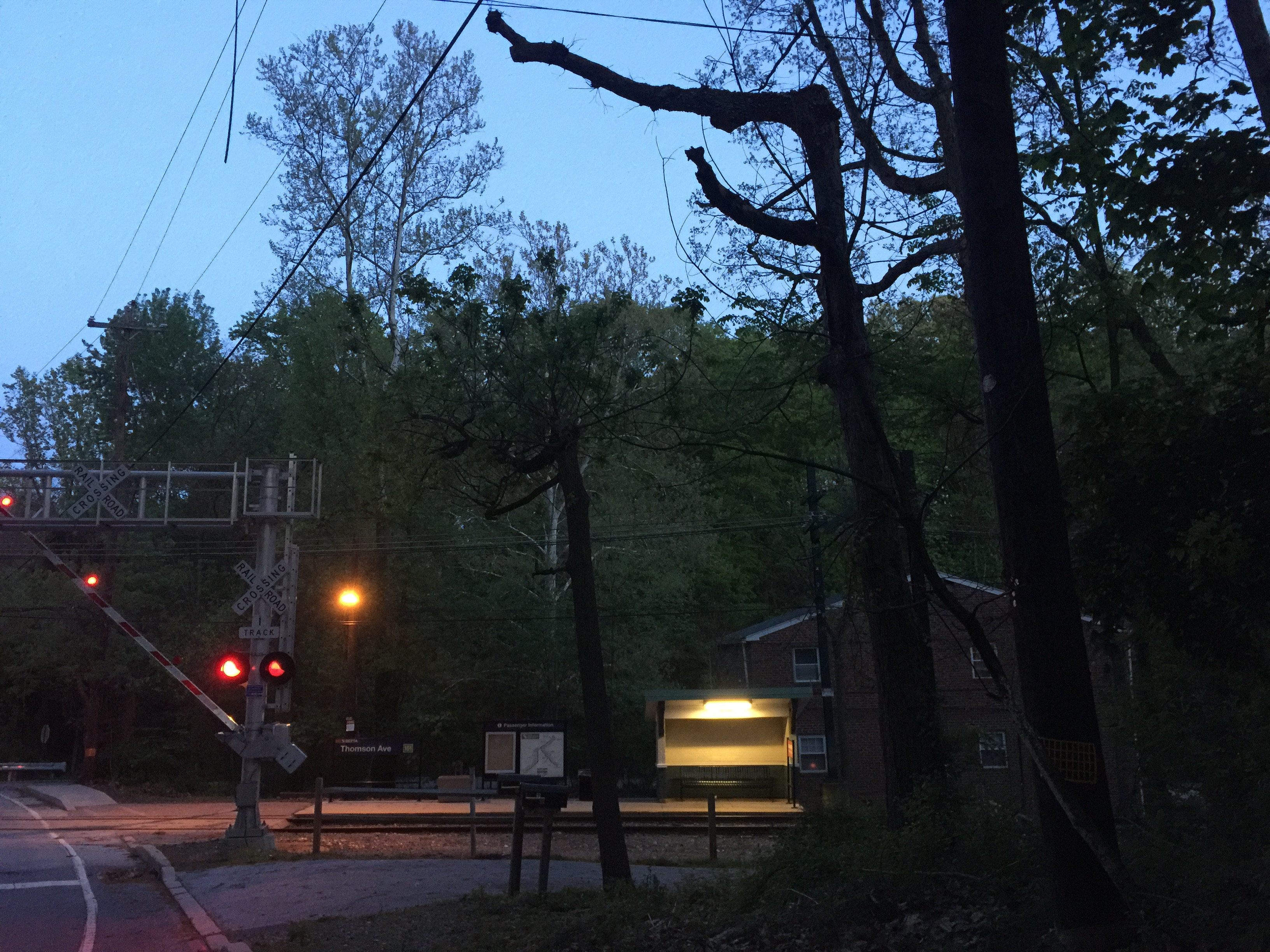 Thomson Avenue station